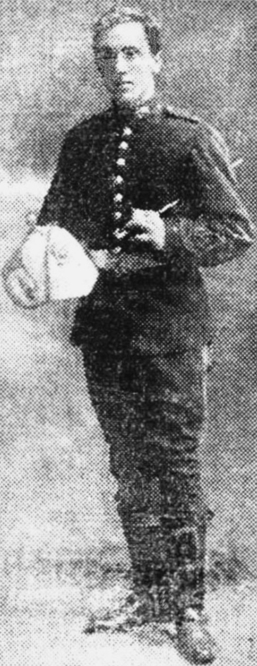 Sgt. William Meeske